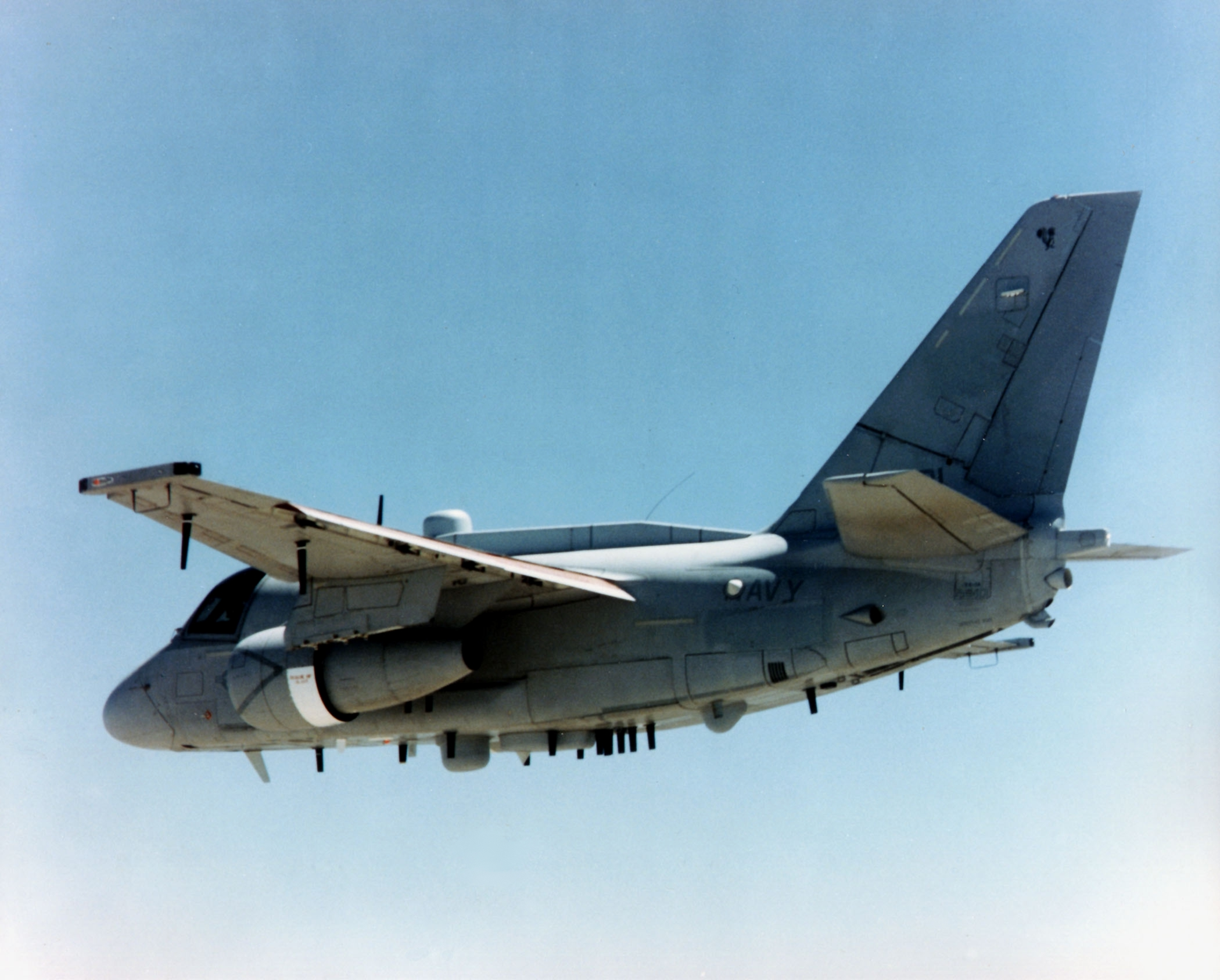 A U.S. Navy Lockheed ES-3A Shadow (BuNo 159401) from Fleet Reconnaissance Squadron VQ-6 Black Ravens in flight off the Florida coast. This aircraft was retired to the AMARC as 2S0036 on 24 February 1999 and scrapped on 8 January 2003.